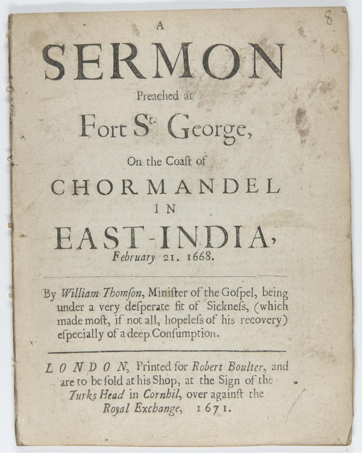 Title page of A sermon preached at Fort St. George, on the coast of Chormandel in East-India, February 21, 1668, by William Thomson, minister of the Gospel, being under a very desperate fit of sickness, (which made most, if not all, hopeless of his recovery) especially of a deep consumption, London, printed for Robert Boulter, 1671. Courtesy of the Beinecke Rare Book and Manuscript Library, Yale University, New Haven, Connecticut.